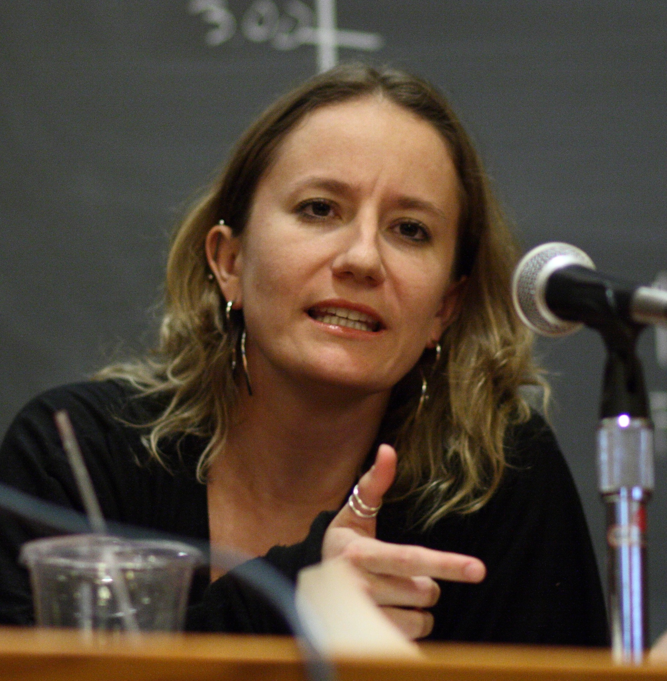 danah boyd at the Writers on Writing about Technology roundtable at Yale University marking the publication of The Best Technology Writing 2009 (Yale University Press), to which boyd contributed.